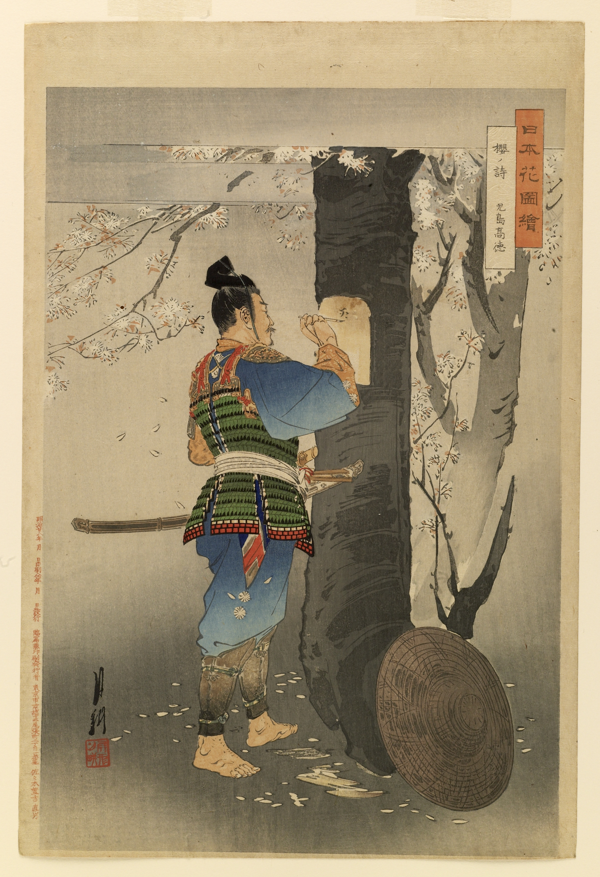 Kojima Takanori (died 1358), a loyal supporter of the imperial house, stripped bark from the trunk of a cherry tree in order to write a Chinese poem. The poem was meant to be seen by the Emperor Go-Daigo as he was being escorted into exile. Takanoi chose an old Chinese poem that only the Emperor would understand to mean that help was near.